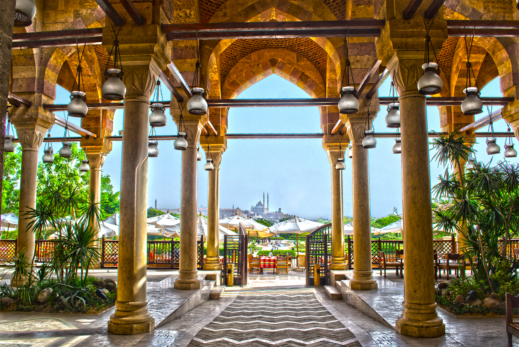 Interior shot from Al Azhar Park